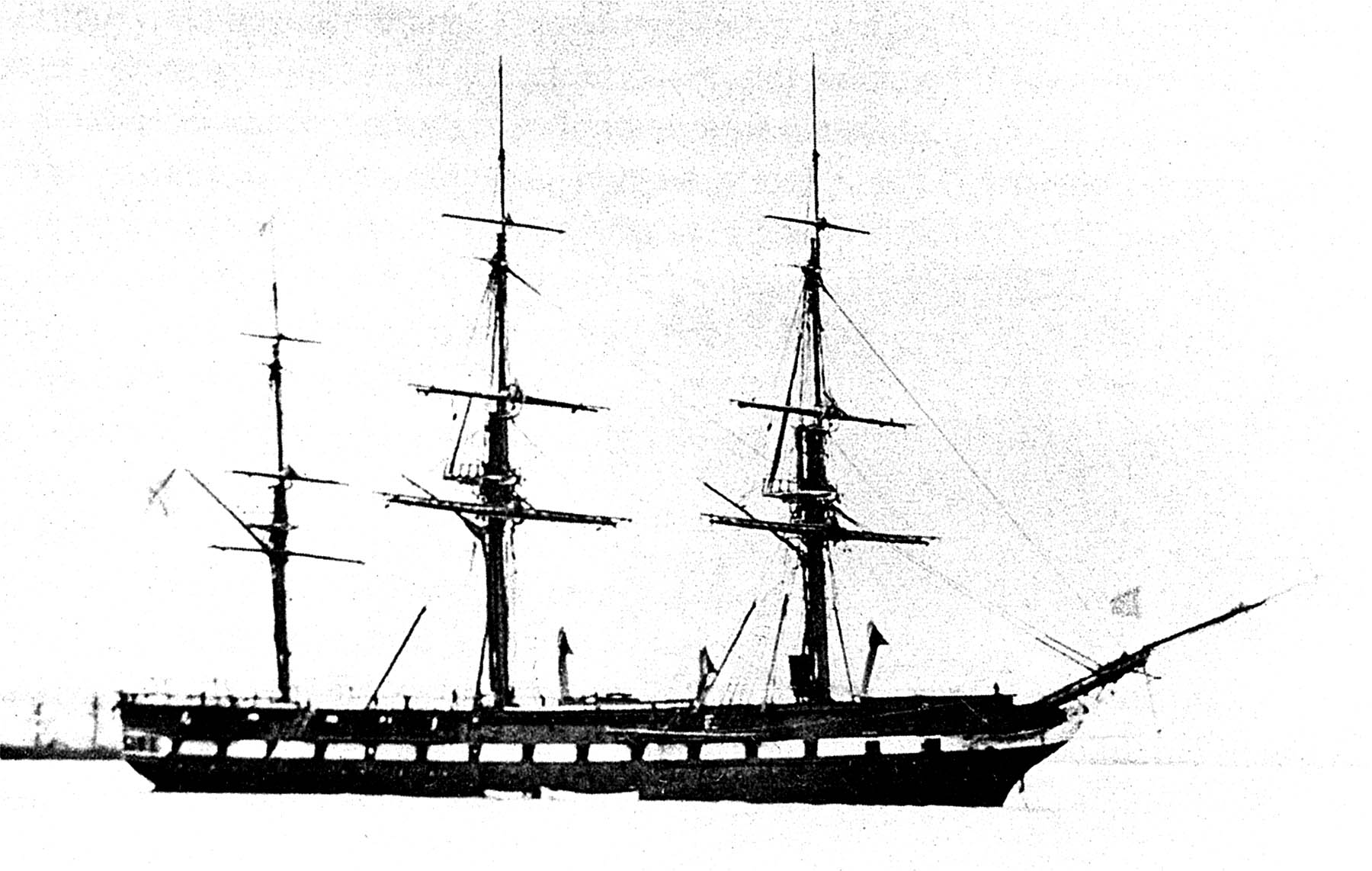 Imperial Russian frigate Oslyabya.